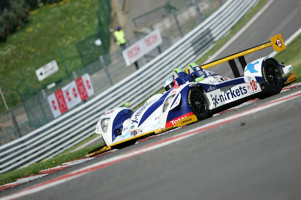 Mikael Forstén racing LMP1-car in Spa